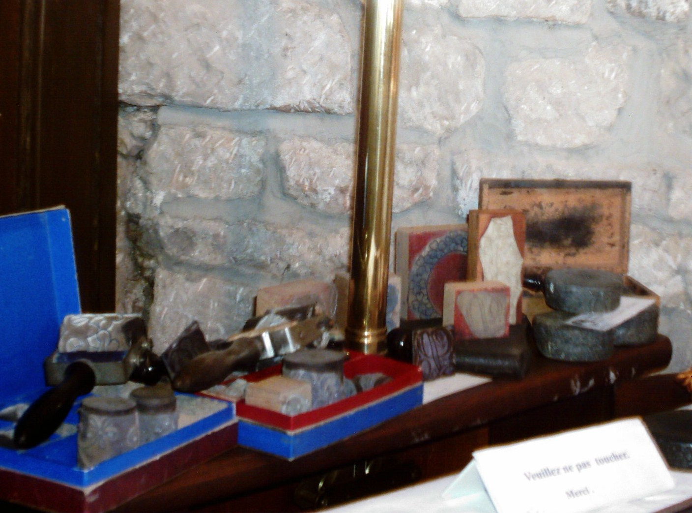 Buffers inking fabrics, museum Fontenoy